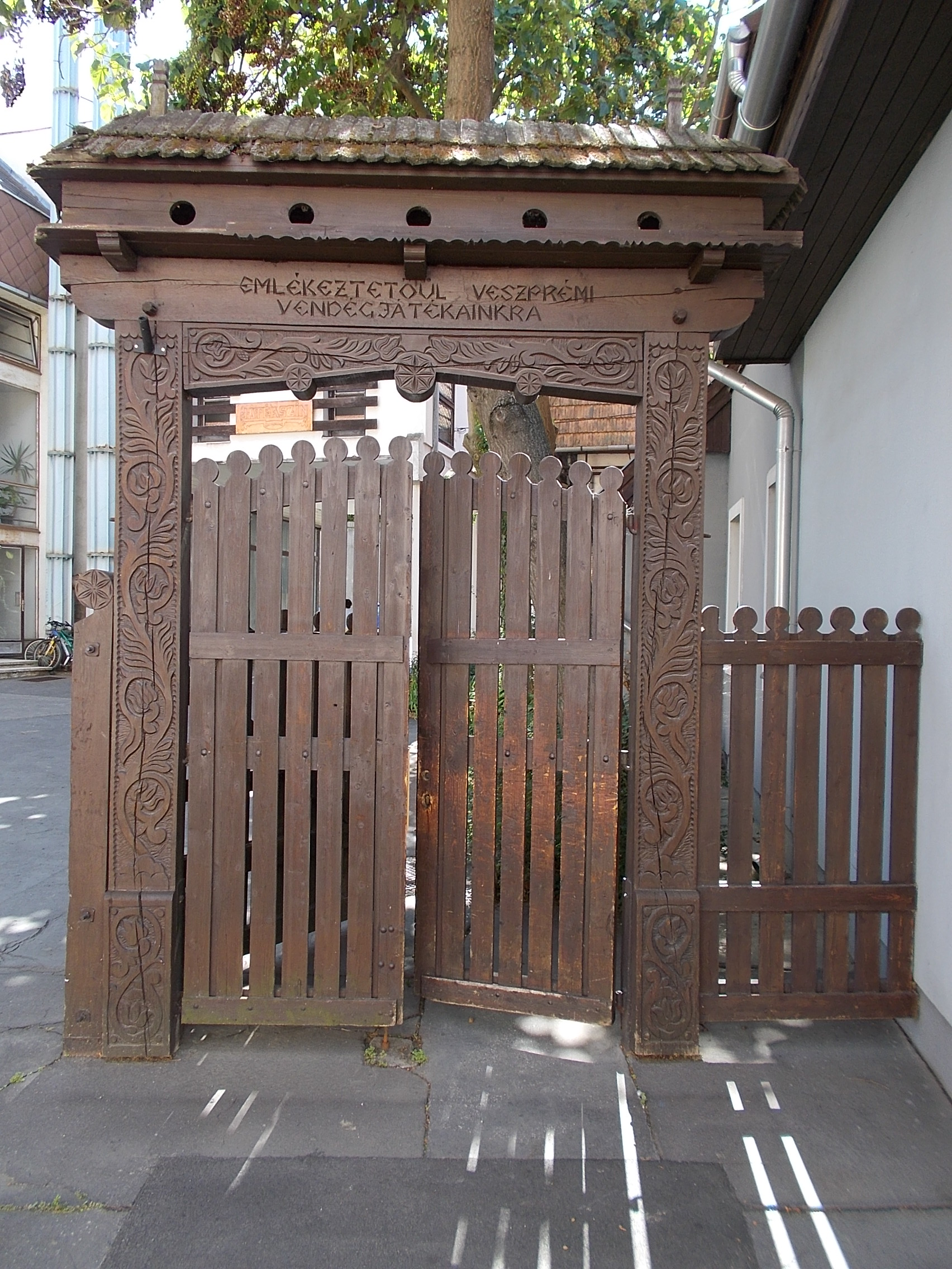 Latinovics-Bujtor Játékszín. Memorial gate. - 2 Iskola Street, Veszprém, Veszprém County, Hungary.